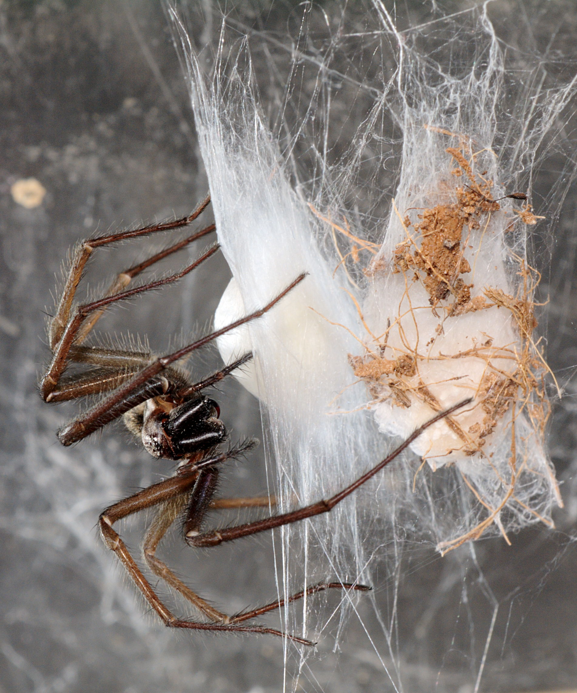 Tegenaria atrica building its second egg sac. Chelicerae are visible. From Cologne, Germany.